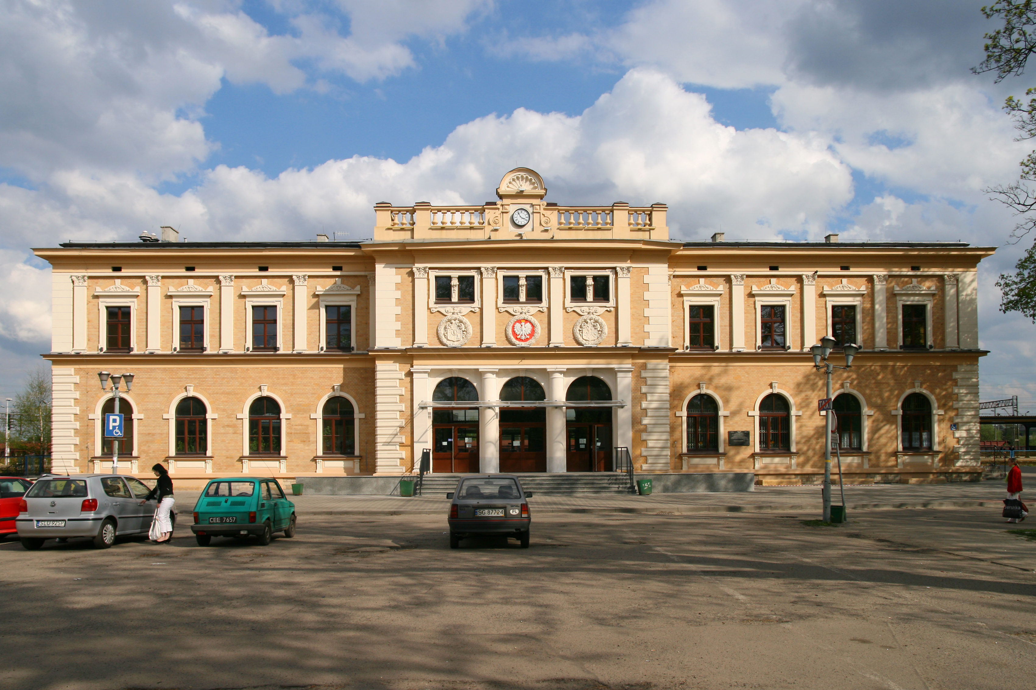 Train station in Tarnowskie Góry (Poland).